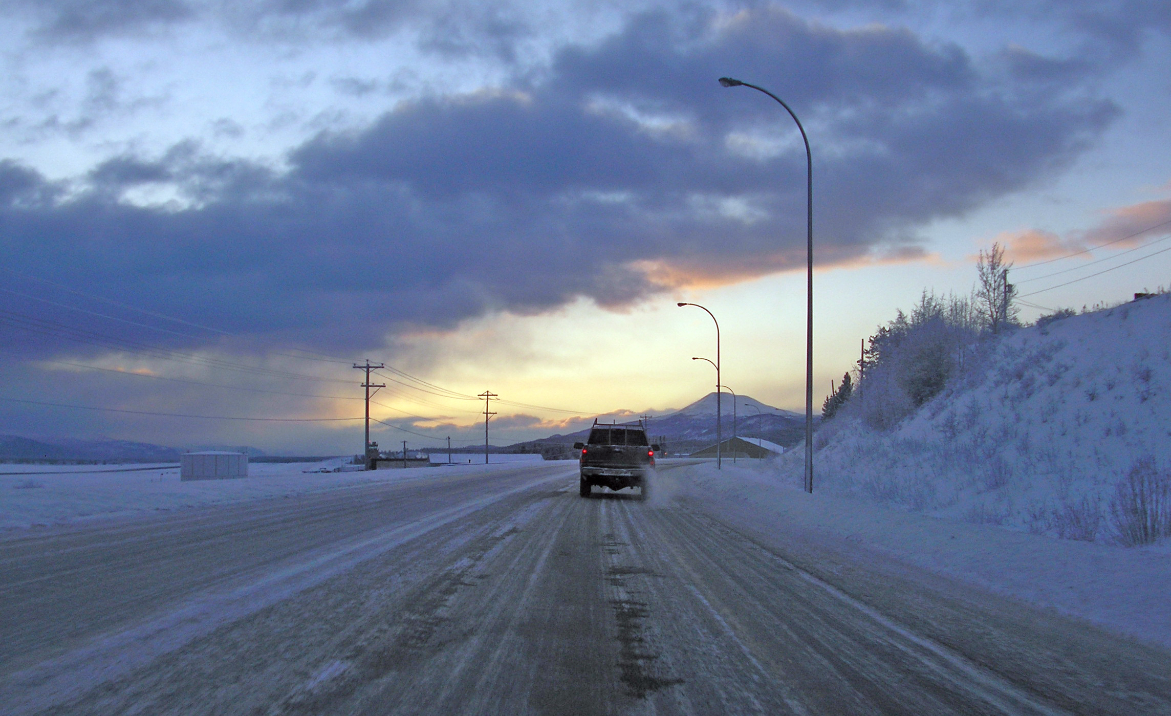 Alaska Highway in Whitehorse, Yukon